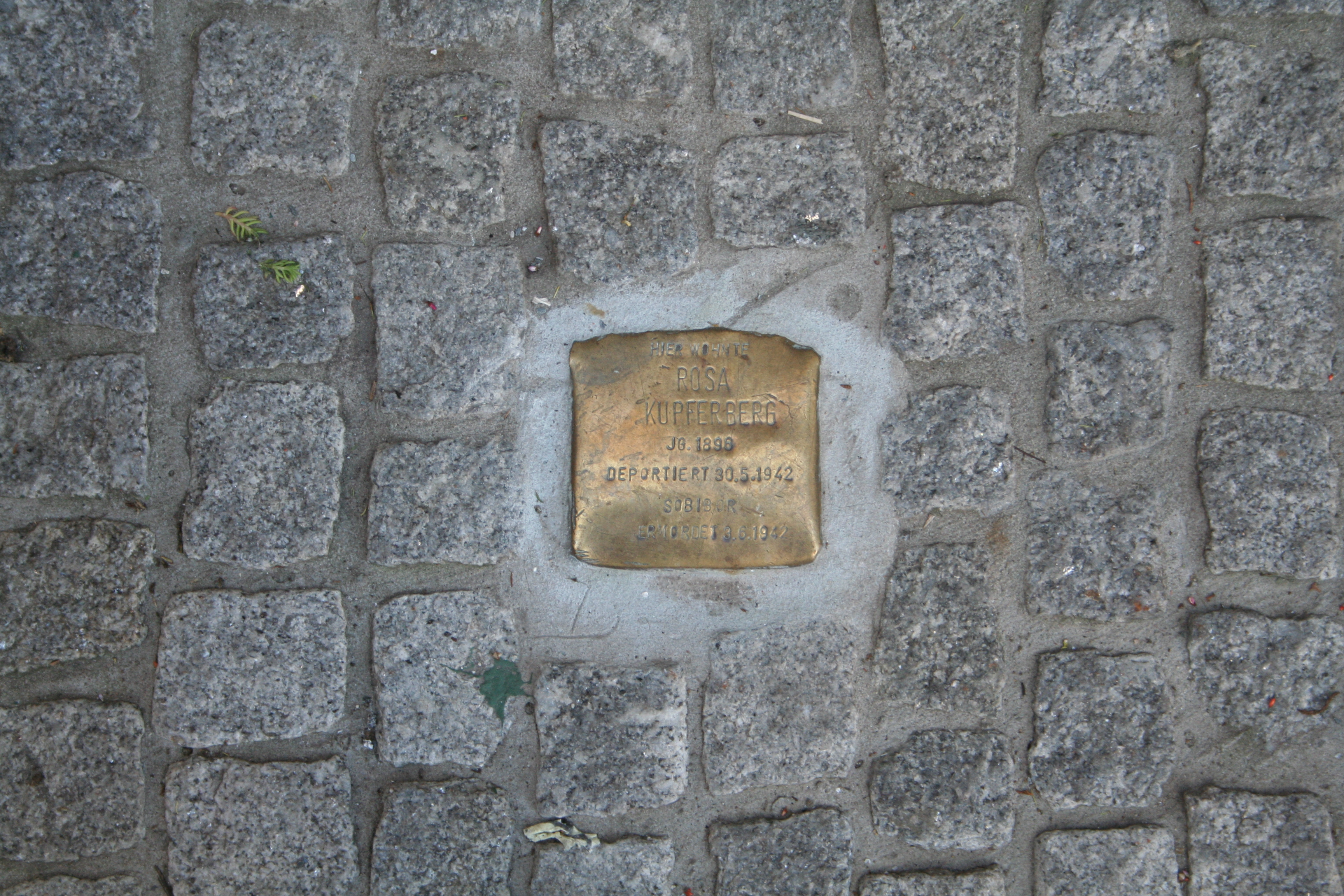 Stolperstein at Halle (Saale) for Rosa Kupferberg, Große Märkerstraße 27